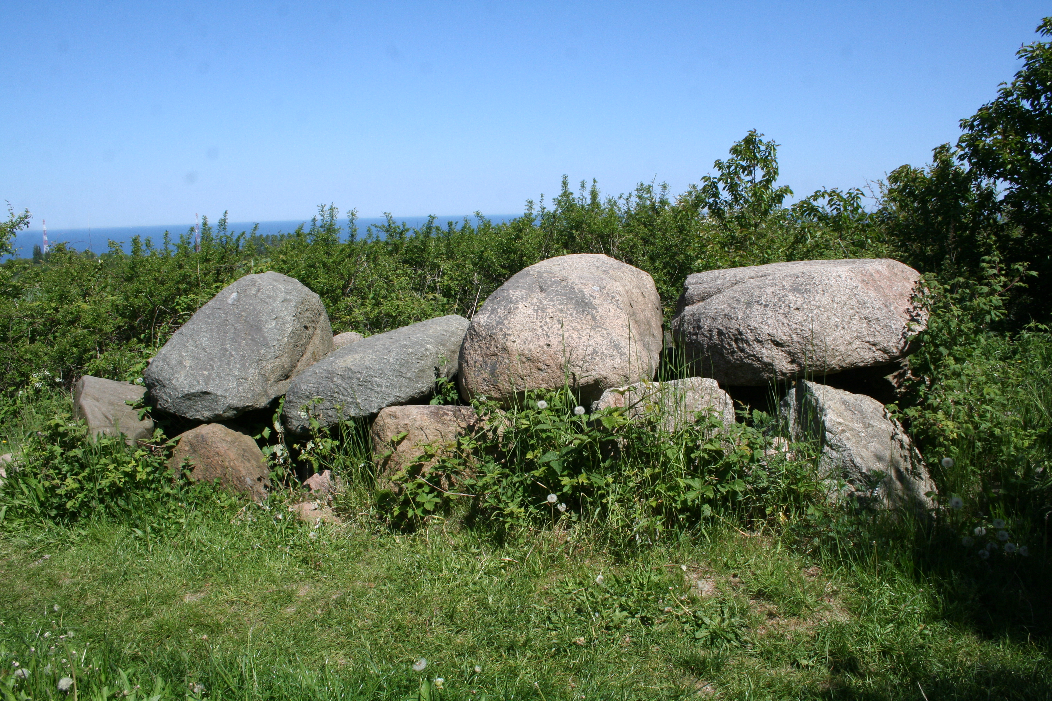 Megalithic Tomb Nipmerow